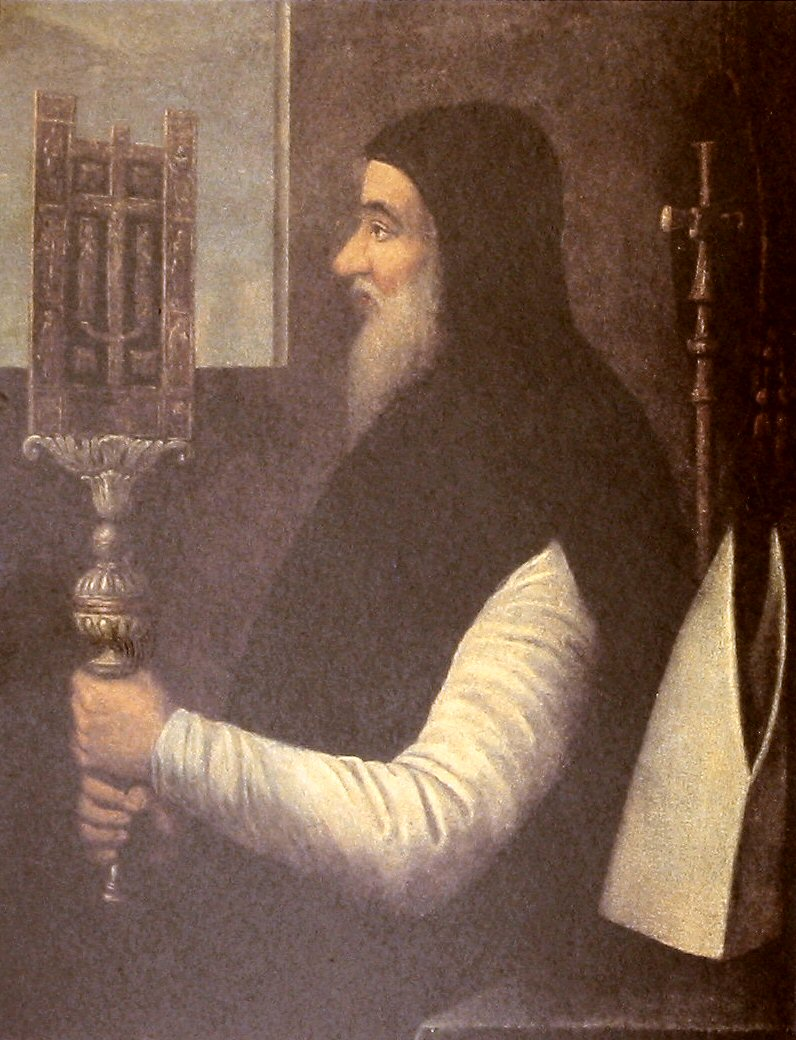 Cordegliaghi was a pupil of Gentile Bellini. The work was commissioned by the Scuola di Santa Maria della Carita, and was probably based on a lost work by Bellini himself, also commissioned by Ulisse Aliotti in 1472.